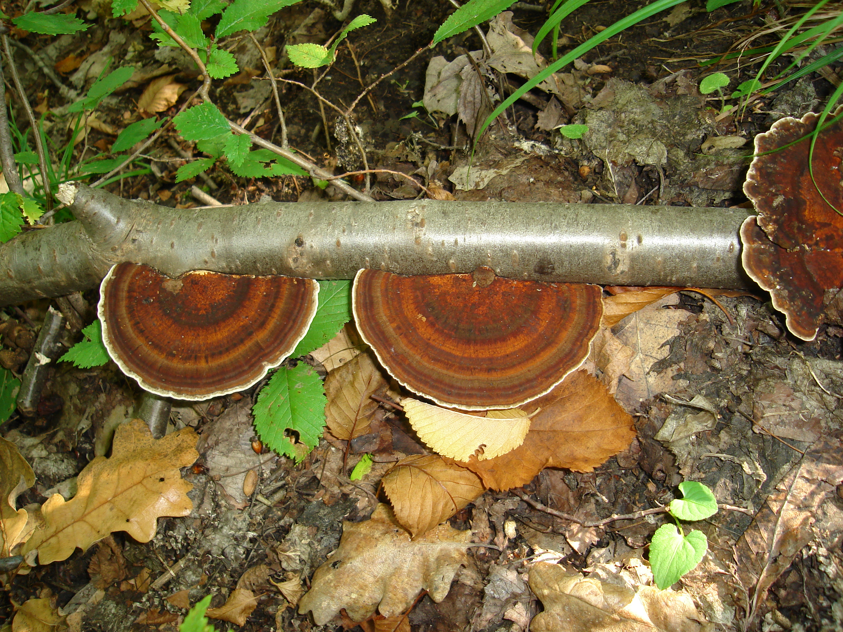 Daedaleopsis confragosa (Bolton) J. Schröt. Image location: Breaza, Prahova county, Romania Found them in the forest on a fallen branch, partly decayed wood. Recognized by sight For more information about this, see the observation page at Mushroom Observer.